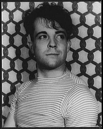 Portrait of Ramon Novarro Portrait of Ramon Novarro